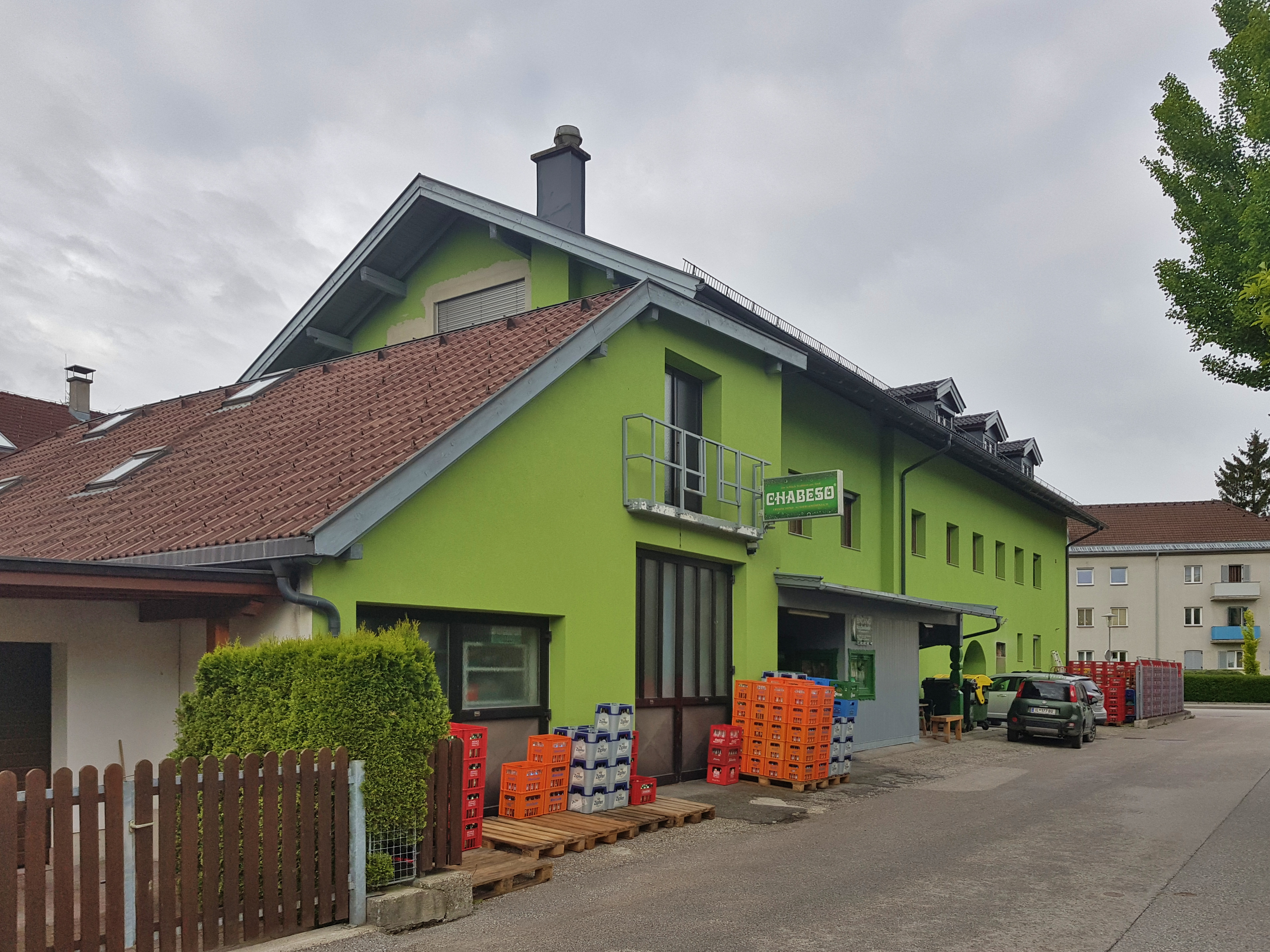 Chabeso